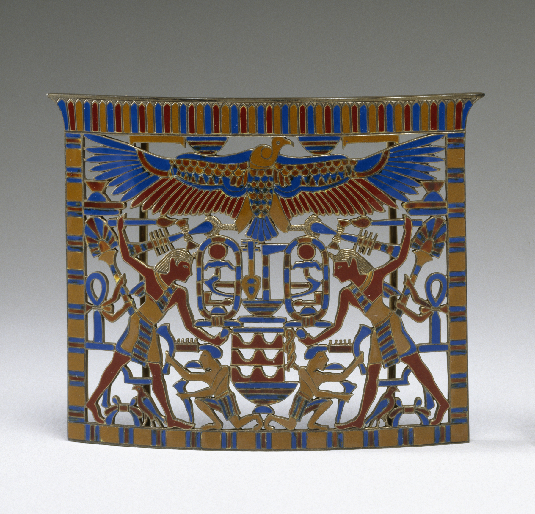 In 1894, J. de Morgan excavated several magnificent ancient pectorals from the tomb of Princess Mereret, daughter of Sesostris III, in Dahshur, Egypt. Soon after this discovery, this faithful replica was made. Unlike many Egyptianizing pieces, this example copies the details of the original without major errors or changes; only the size and material are slightly varied: silver and multicolored enamels replaced gold, carnelian, and faience. The brooch, in the form of a kiosk, gives the names of the pharaohs Sesostris III and Amenemhet III from the middle of the 12th Dynasty (19th century BC). Below the wings of a protective vulture, the pharaohs are depicted as humans slaying their enemies.